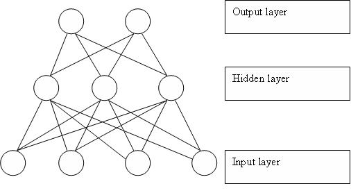 Basic Scheme of a Neuronal Network